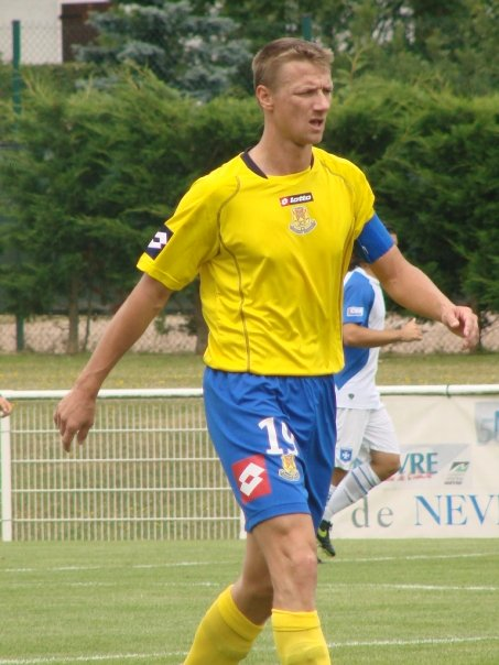 picture of Tony Vairelles, soccer player of FC Gueugnon